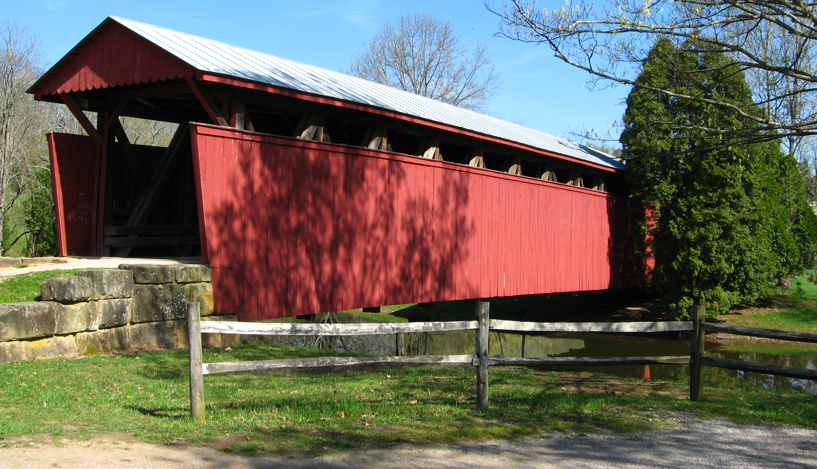 The Staats Mill Covered Bridge — at Cedar Lakes Conference Center located near Ripley, Jackson County, West Virginia.